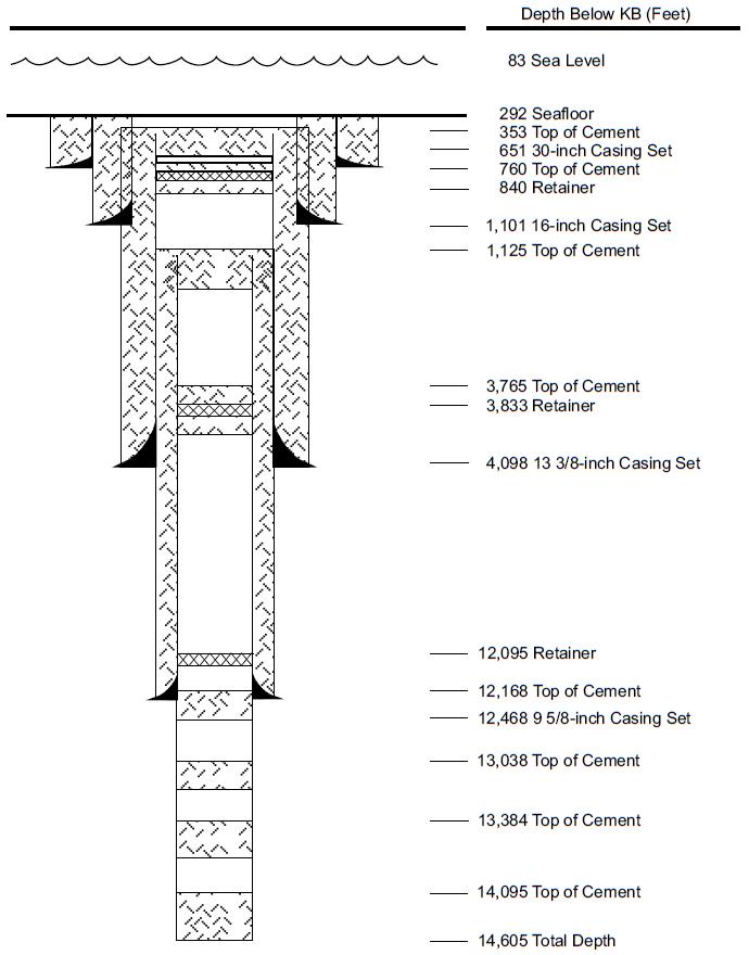 Casing diagram for the Exxon Corsair Canyon Block 975 No. 1 Well.